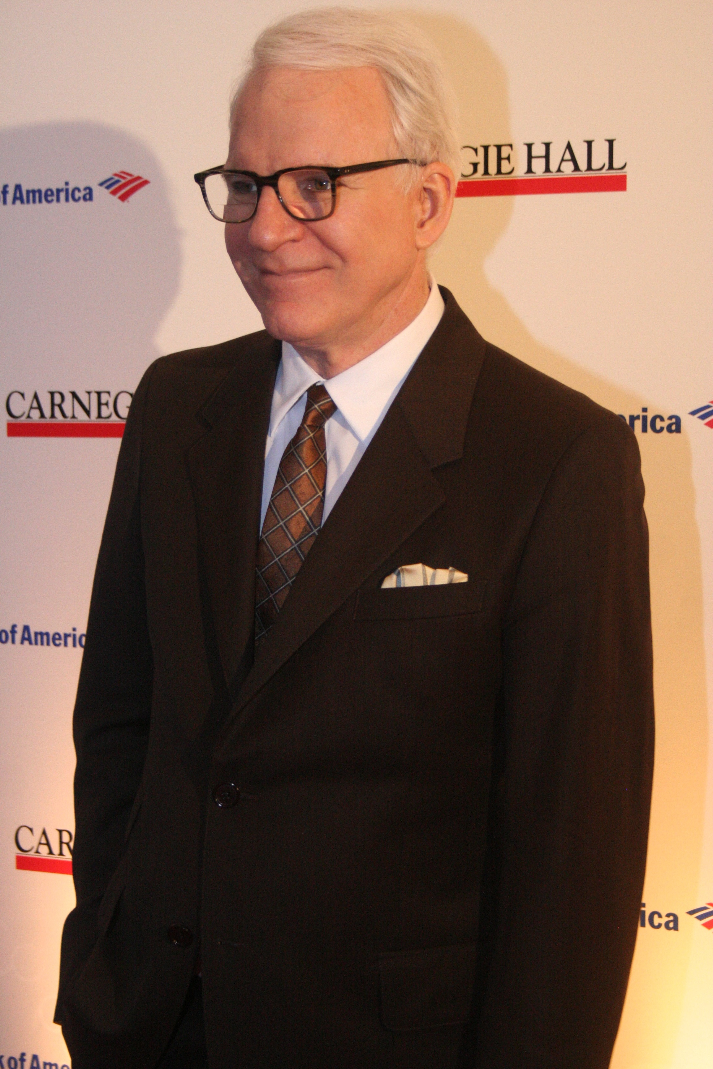 120th Anniversary Of Carnegie Hall MOMA, New York City April 12th 2011